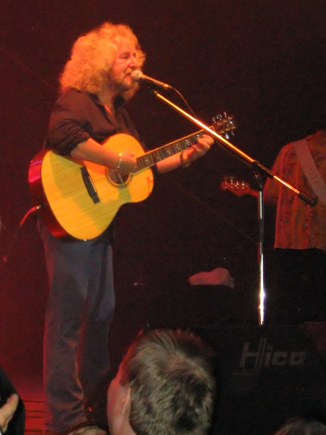 Les Holroyd at a Concert of Barclay James Harvest featuring Les Holroyd at Schloss Moyland on 19th July 2003